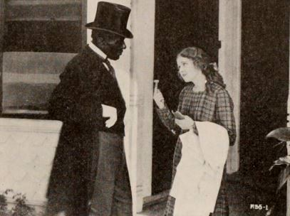 Still from the American drama film Mirandy Smiles (1918) with an unidentified actor and Vivian Martin, on page 23 of the November 30, 1918 Exhibitors Herald.